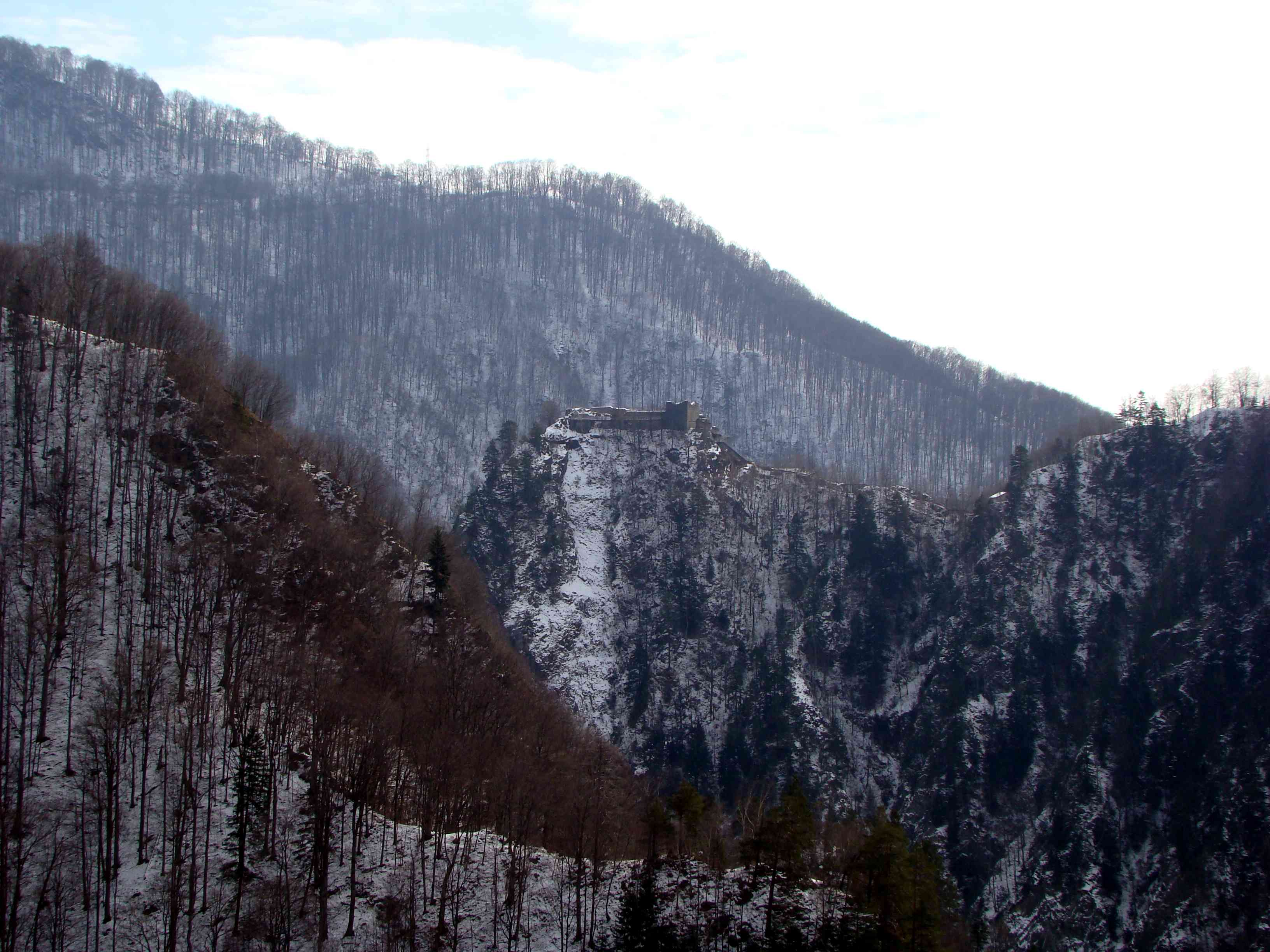 Poienari Castle view from the road to Vidraru Dam. Taken on March 01 2009. 01